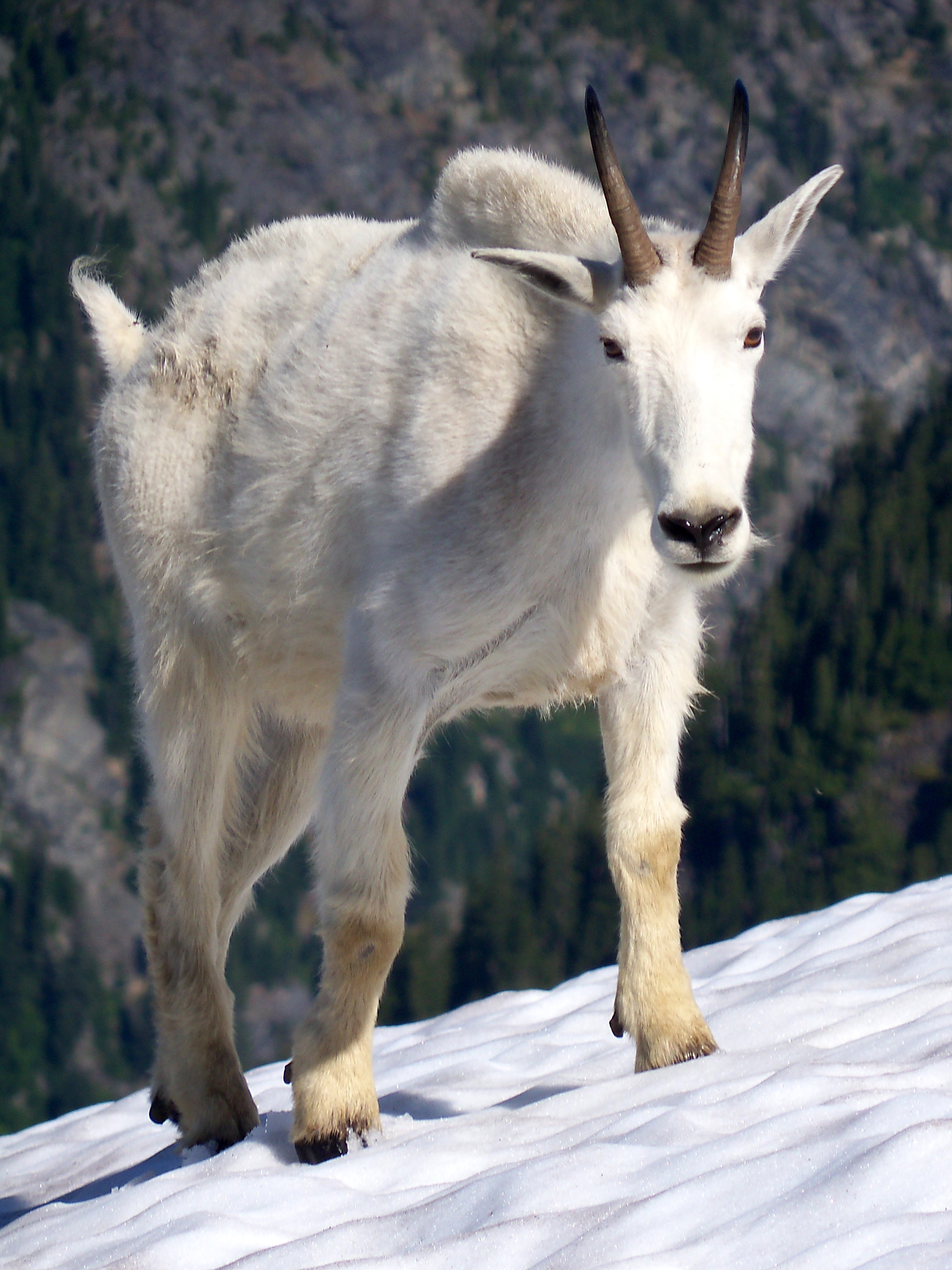 Mountain goat on snow slope in North Cascades National Park